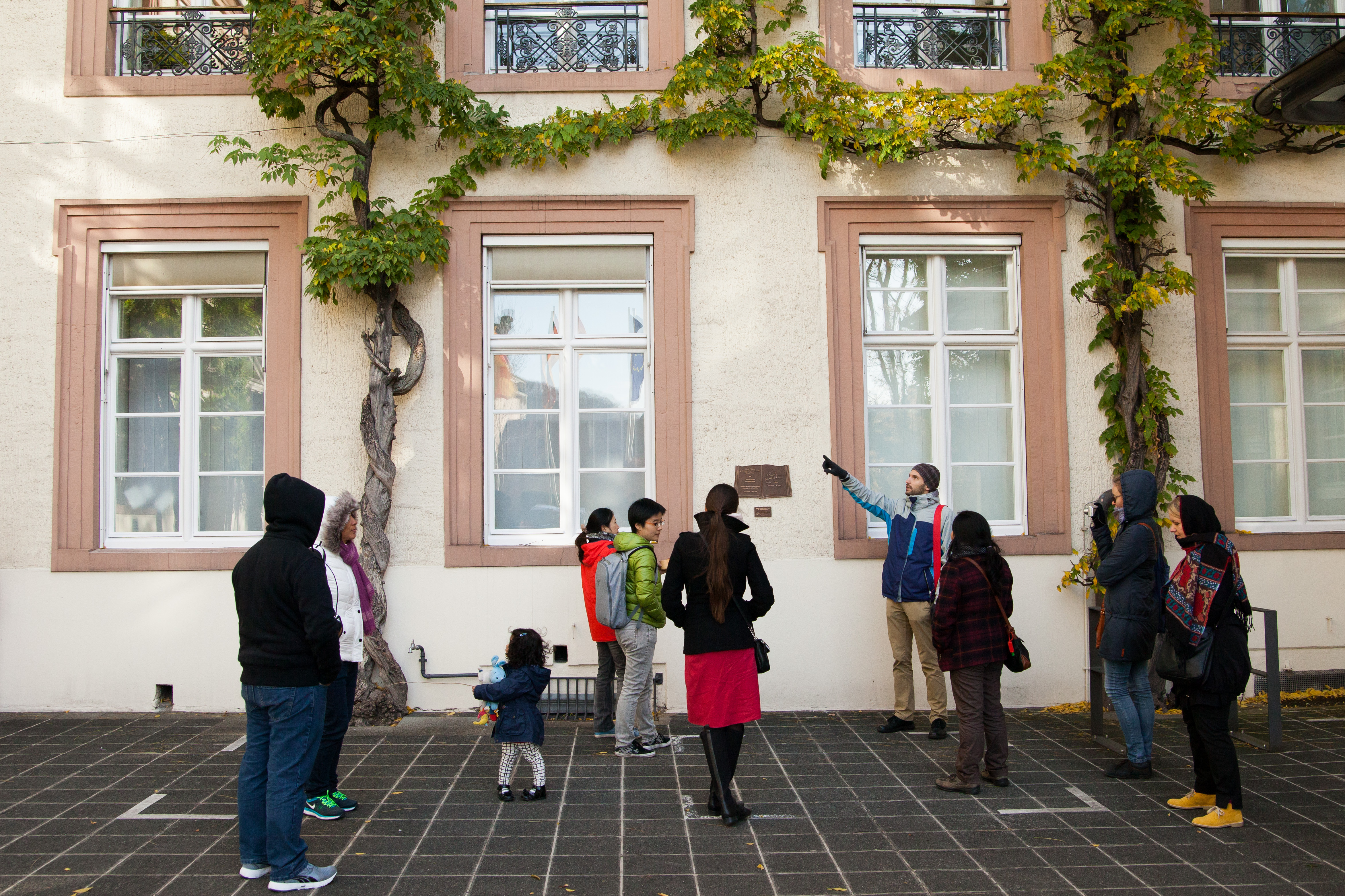 Free Walking Tour in Baden-Baden